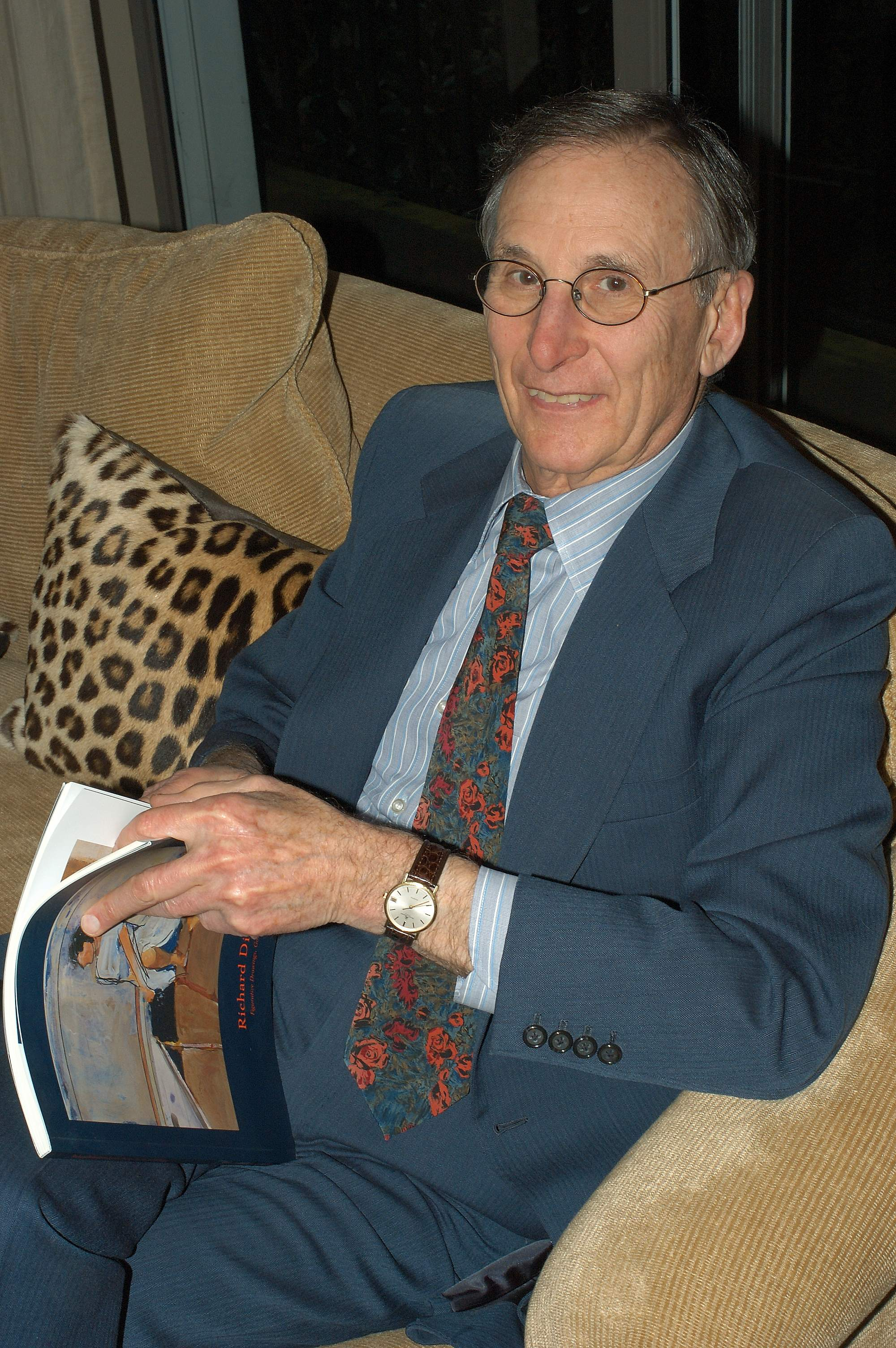 Arthur Rock & Toni Rembe opened up their lovely home to the Commonwealth Club Centennial Committee, Officers, Board Members and VIPs for a wonderful cocktail reception to kickoff the Club's 2003 year-long centennial festivities. URL